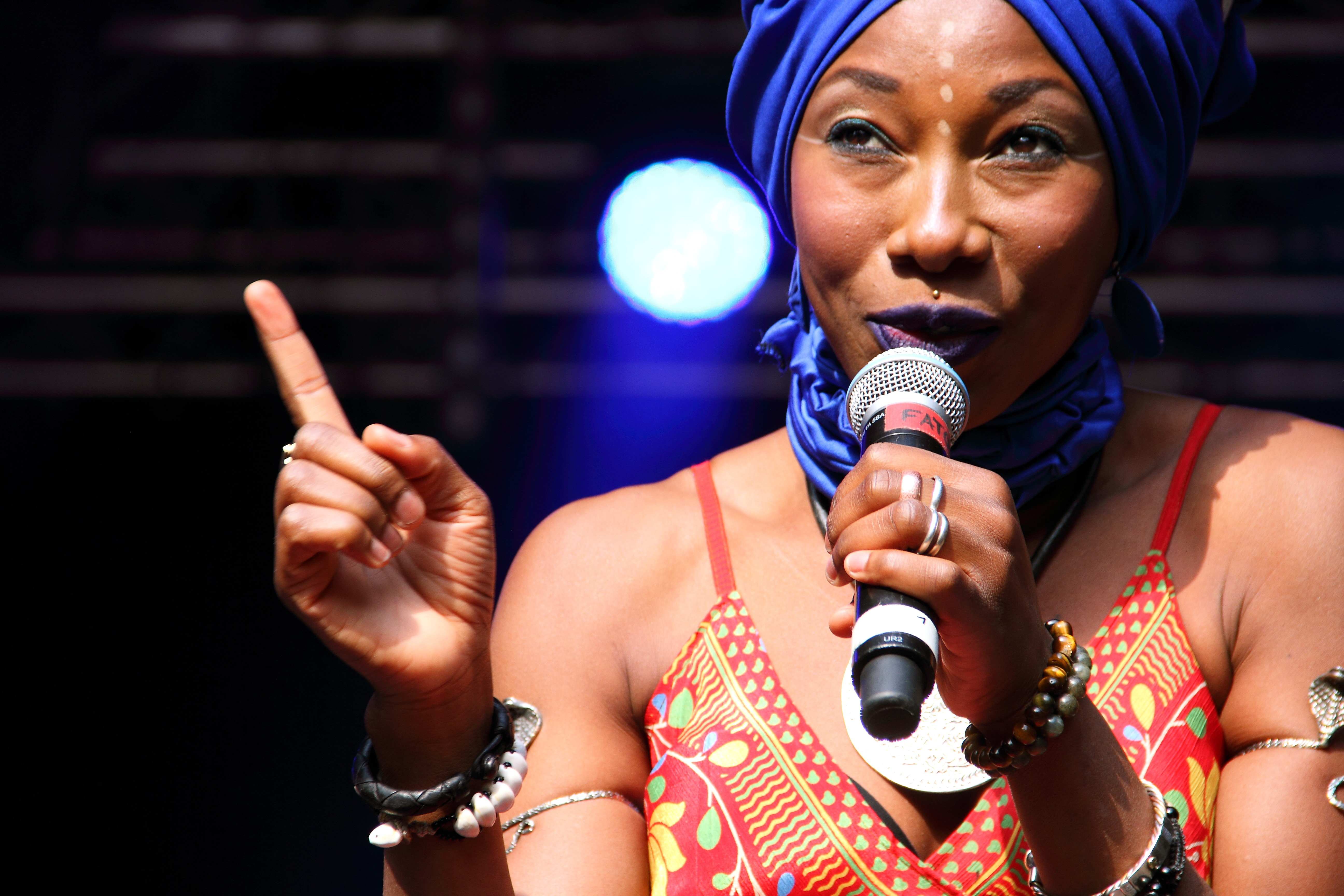 Fatoumata Diawara at Rudolstadt-Festival 2018.